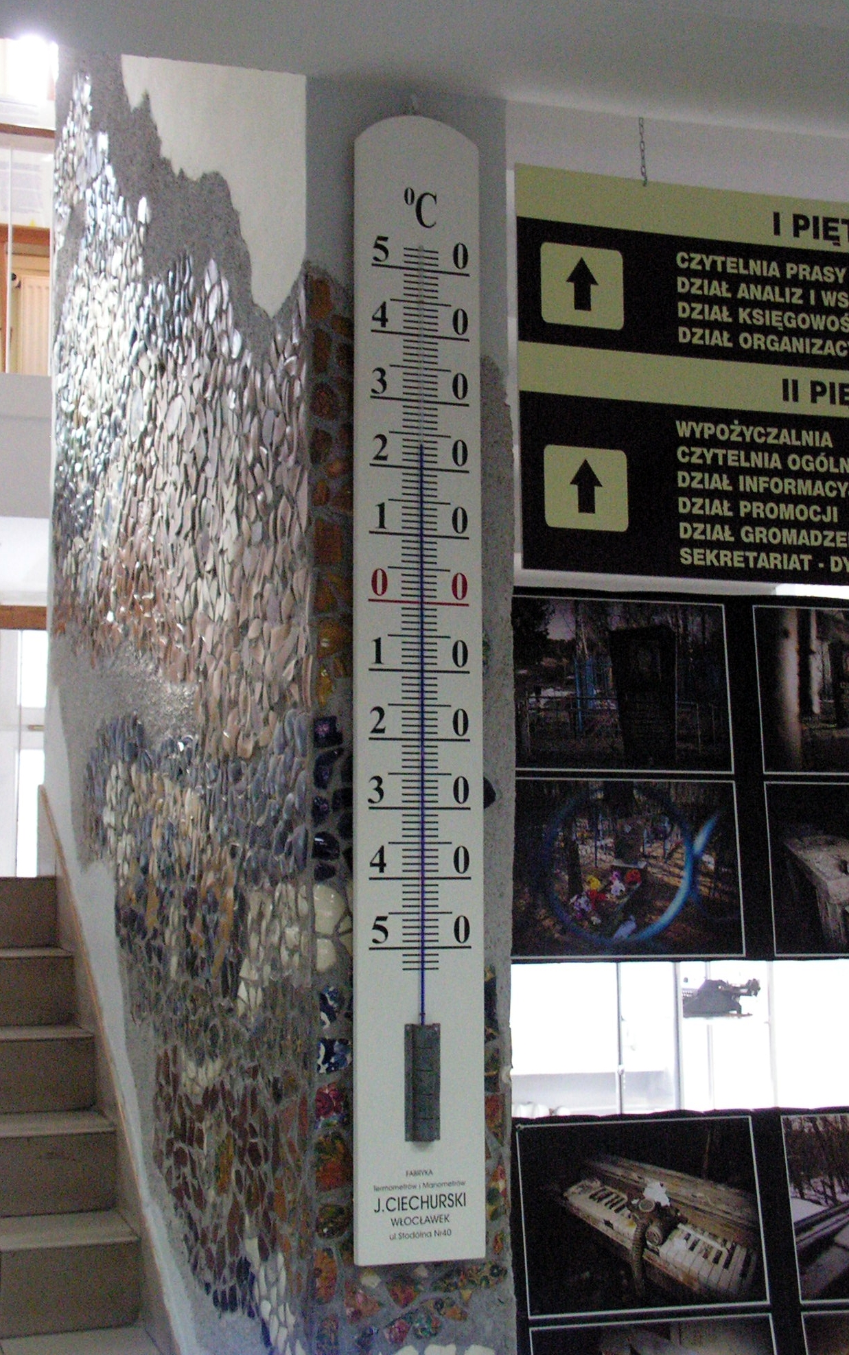 Thermometer in Public Library at Warszawska Street in Włocławek, signed by Manometers and Thermometers Factory of Ignacy Ciechurski.